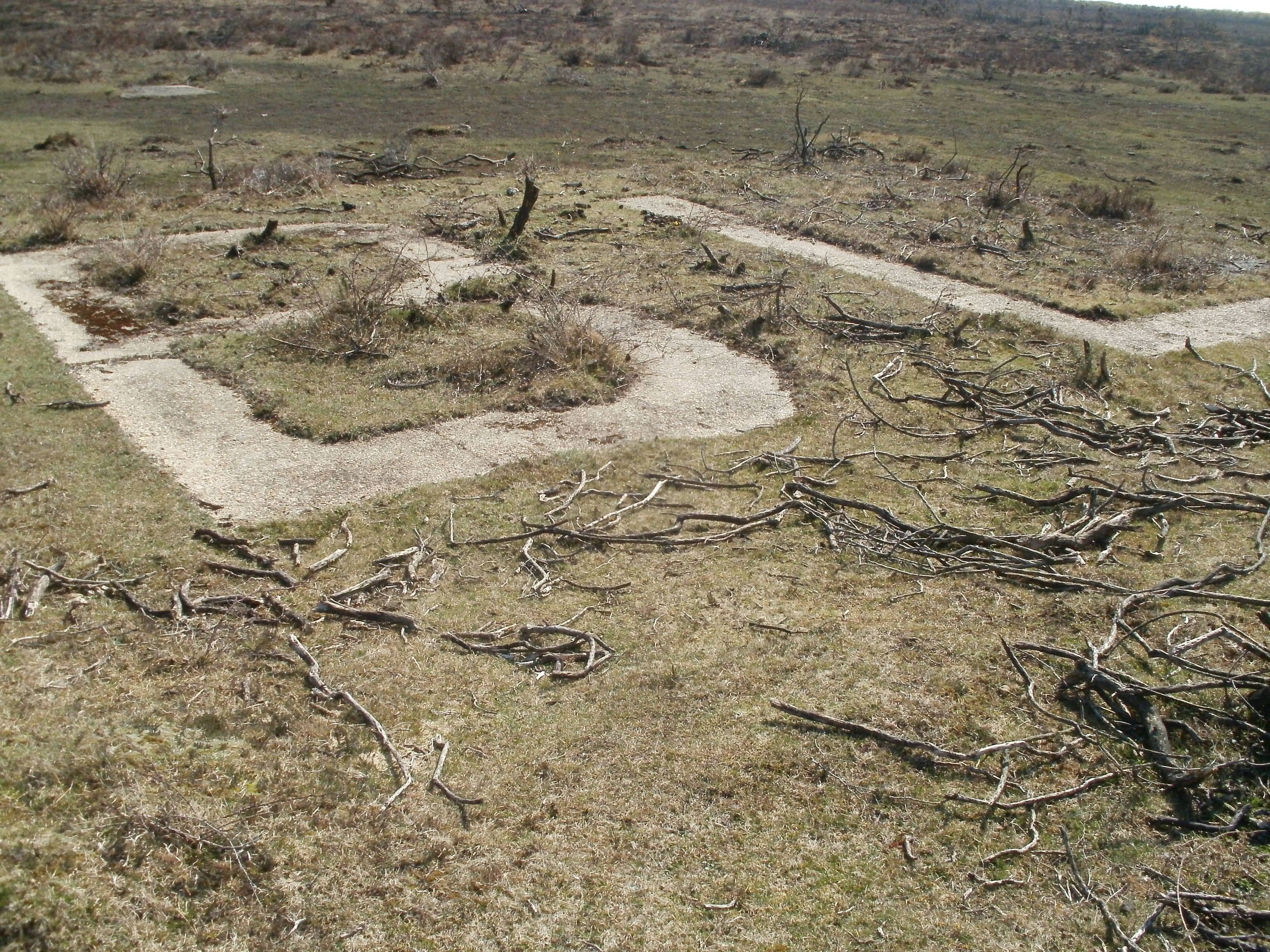 Letters BL are the Pundit Code for RAF Beaulieu and are still visible. P4062215